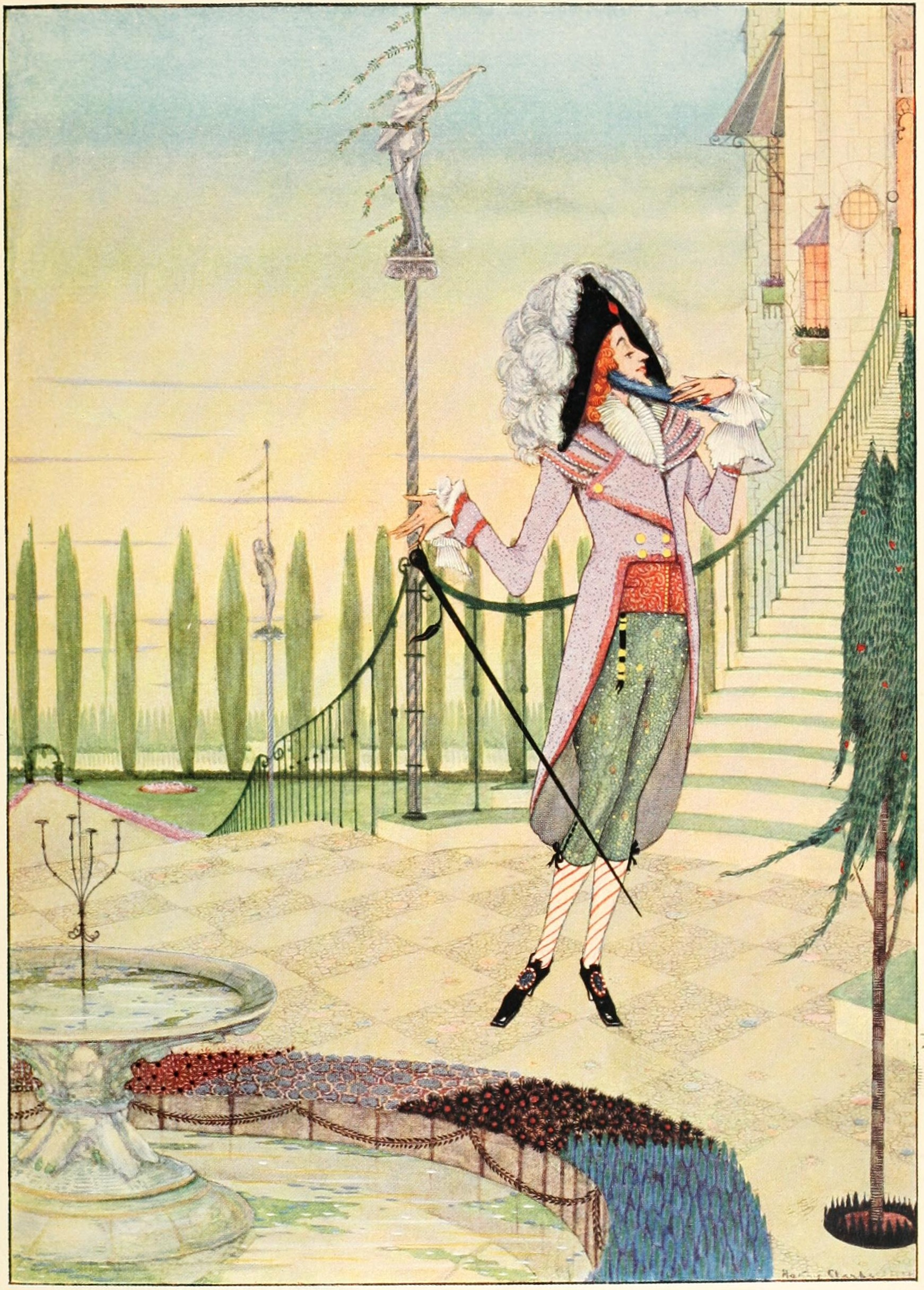 Illustration in The fairy tales of Charles Perrault Perrault, Charles, 1628-1703; Clarke, Harry, 1889-1931, illustrator. London: Harrap (1922)